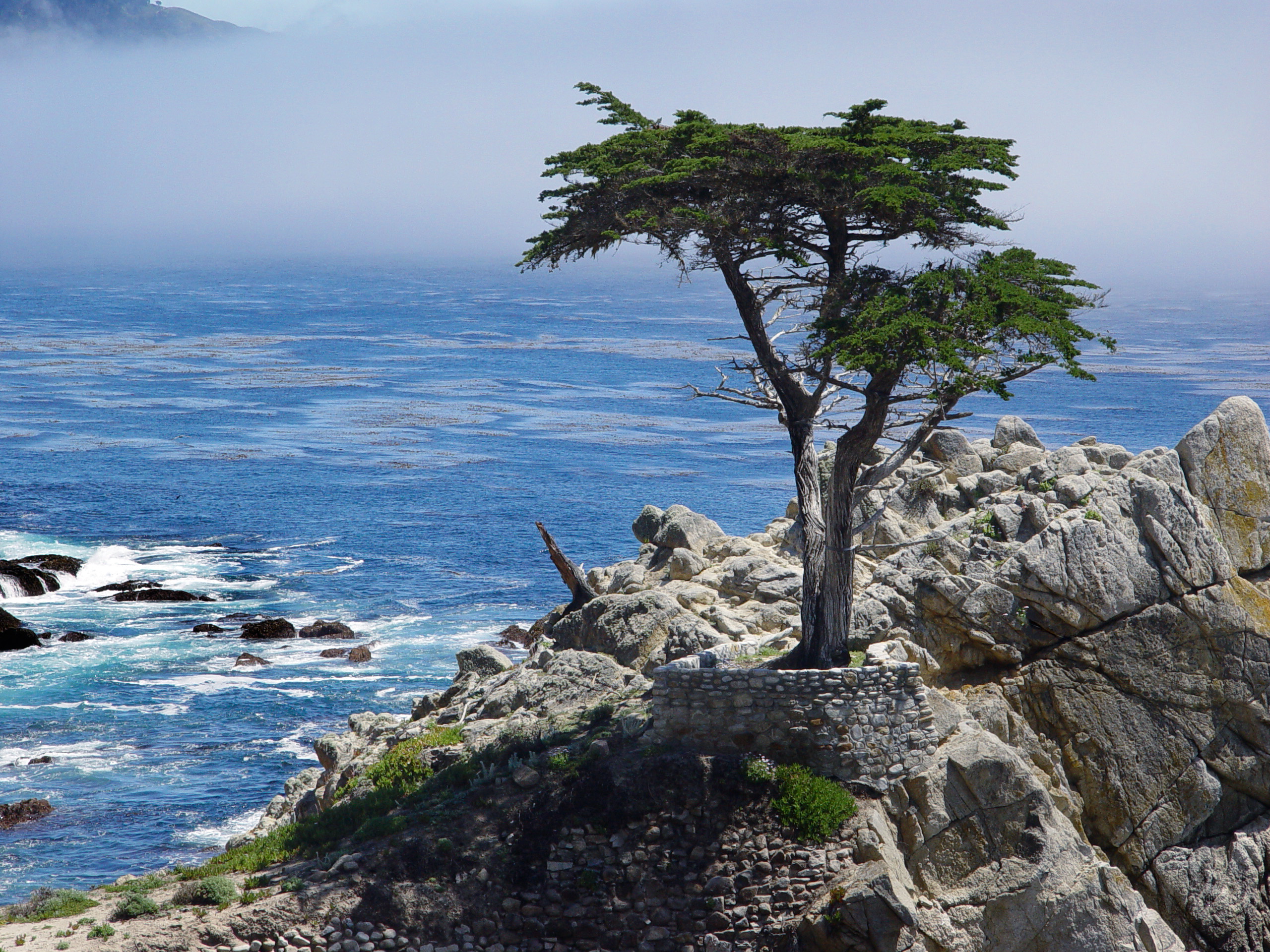 Lone cypress at 17-mile drive, Pebble Beach, California, USA